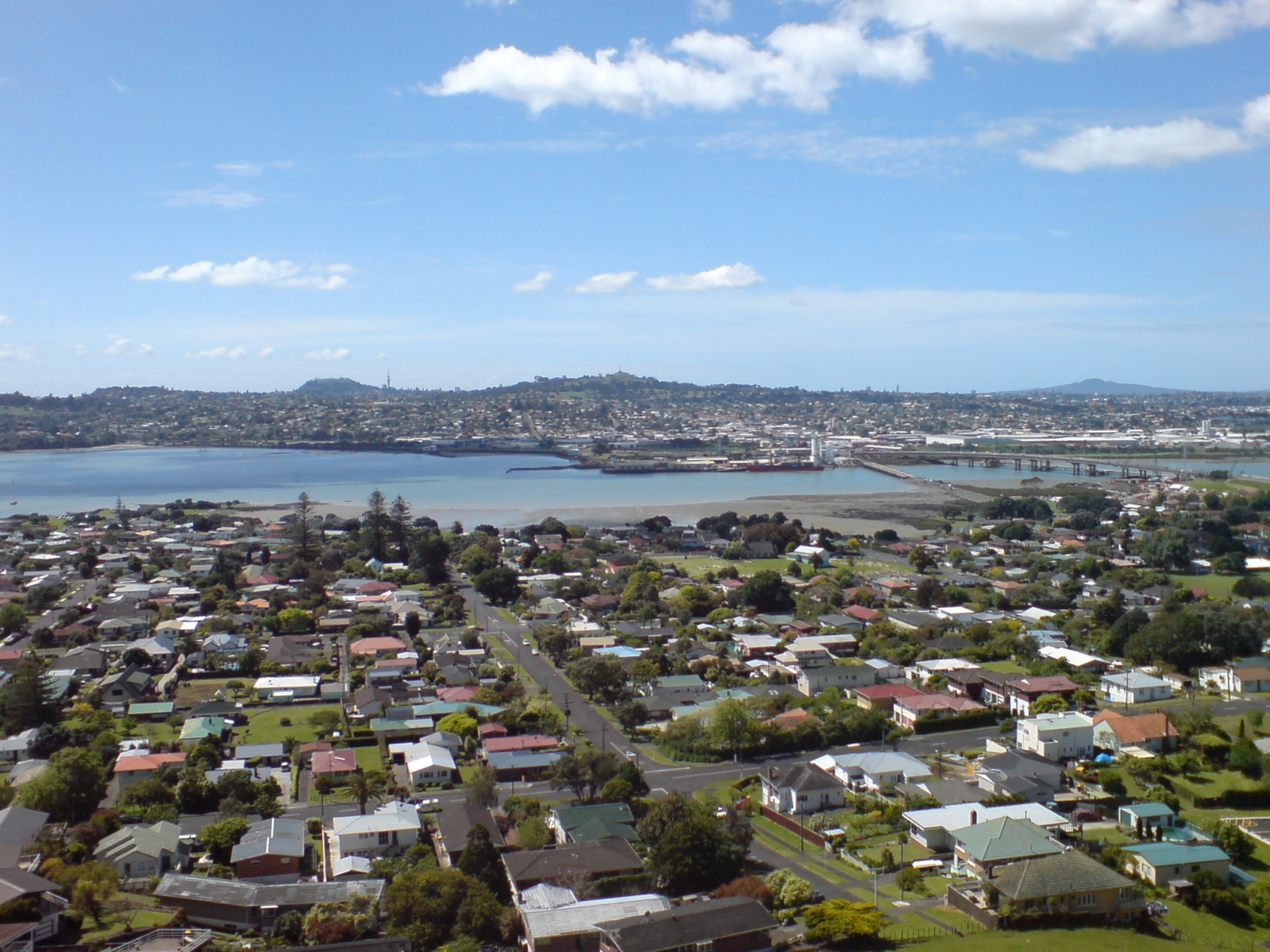 A view northwards over South Auckland, with Onehunga, Auckland City, New Zealand in the centre distance.